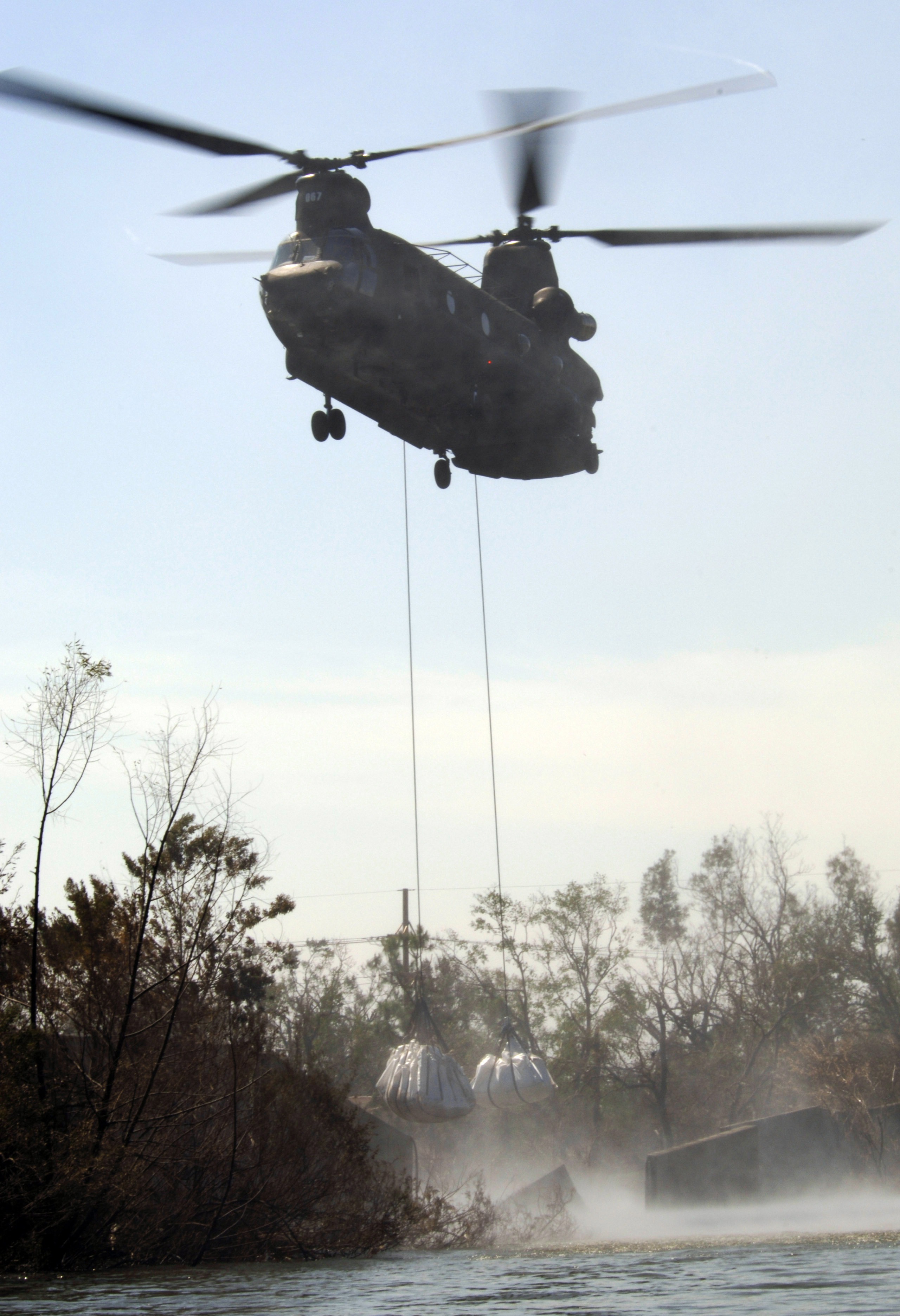 050907-N-5319A-023 New Orleans (Sept. 7, 2005) – An Army National Guard CH-47 Chinook helicopter drops 15,000-pound bags of sand into a levee that gave way, flooding the streets and homes after Hurricane Katrina ravished New Orleans filling eighty percent of the city with water. The Army National Guard along with the Navy, Army, Marines, Air Force, and Coast Guard have been mobilized to take part in Joint Task Force Katrina, a humanitarian assistance operation in a joint effort led by the Federal Emergency Management Agency (FEMA), in conjunction with the Department of Defense.